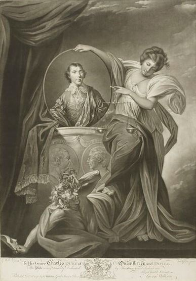 Mezzotint print commemorating the victory of Archibald Douglas in the Douglas Cause. Half-length portrait of Douglas in a medallion, supported on a plinth by a figure of Justice; the plinth bears two medallion portraits, in profile, of William Murray, 1st Earl of Mansfield and Charles Pratt, 1st Earl of Camden. At the foot of the plinth, trampled underfoot, lies the figure of Deceit, holding a mask.